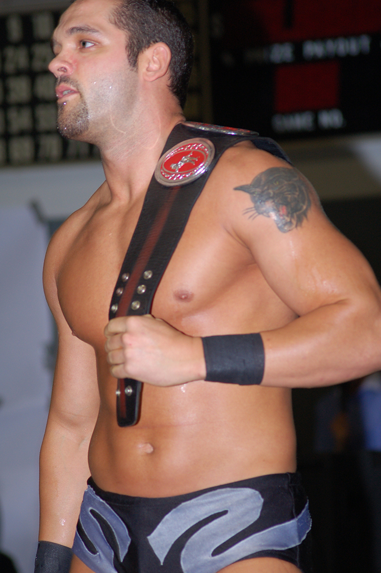 Photo I took of Shawn Spears in Charlestown IN on 12/14/2007